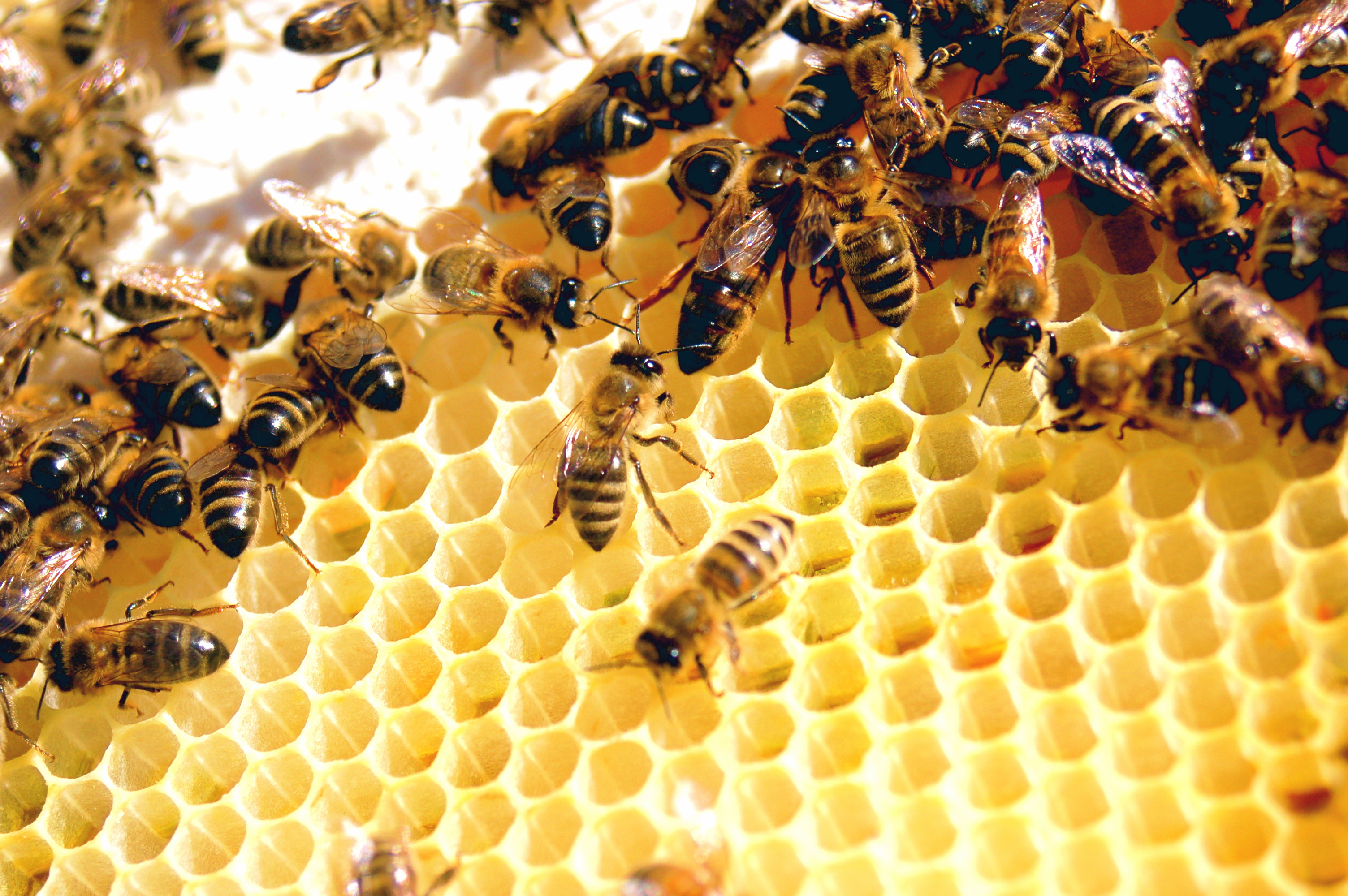 I was a 'visiting scientist' for a bit this summer at the Amdam lab in Norway, WHICH MEANS I GOT TO PLAY WITH BEES! But for serious, they are a great lab and I'm jazzed to be doing a little project for them. I pasted an excerpt from the lab website below to explain generally what they are doing. "The making of a social insect ? the regulatory architectures of social design The origins of social behavior in insects are sought by mechanistic and evolutionary approaches with the common goal of understanding the foundations of social life. The transitions from solitary to social living are studied at multiple levels of analysis ranging from molecular genetics and genomics to evolutionary theories of inclusive fitness and altruism. A fundamental focus of this research is to explain how complex social phenotypes can evolve from ancestral solitary forms. Our group addresses the same question using a battery tools to integrate insights on biochemistry, functional genomics, proteomics, physiology and behavior. We use the highly eusocial honey bee (Apis mellifera) as primary model organism, with particular emphasis on social life-history regulation ? including aging." And for those more interested, a link to their articles.